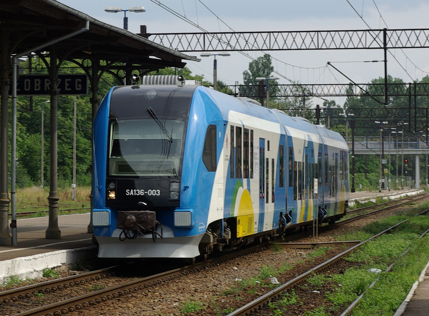 Diesel Multiple Unit SA136-003 in Kołobrzeg, Poland.